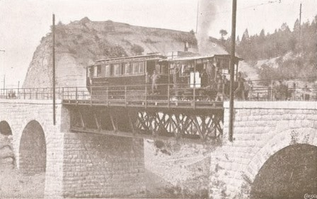 Electric motor coach of the Dermulo–Fondo–Mendola railway with generator car on the Pongaiola viaduct of the Trento–Malè tramway during initial transfer